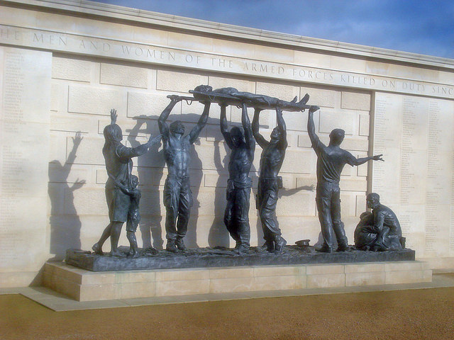 Statue at the Armed Forces Memorial Evocative bronze statue by Ian Rank-Broadley, who is perhaps more well-known as the creator of the Queen's head design on UK coinage.